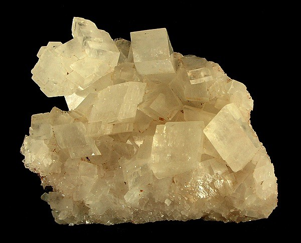 Magnesite Locality: Serra das Éguas, Brumado (Bom Jesus dos Meiras), Bahia, Northeast Region, Brazil (Locality at ) Size: 11.4 x 9.2 x 3.6 cm. Magnesite is usually seen in small crystals as an "accessory" mineral - when from this locality, particularly, with uvites. But this specimen is a superb specimen in and of itself, with large, lustrous, transparent rhombs of magnesite to over 2 cm, sticking up amongst smaller crystals. The magnesites are razor-sharp. There actually ARE a few little uvites to be seen here, too!